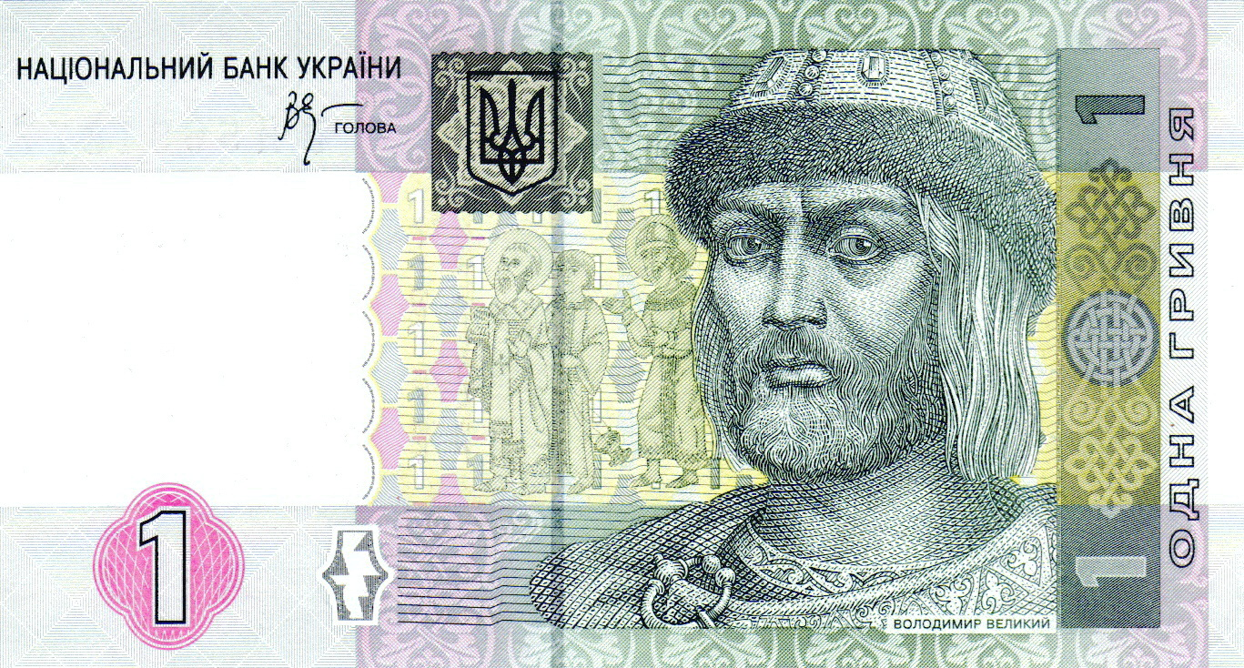 1 Hryvnia 2005 front